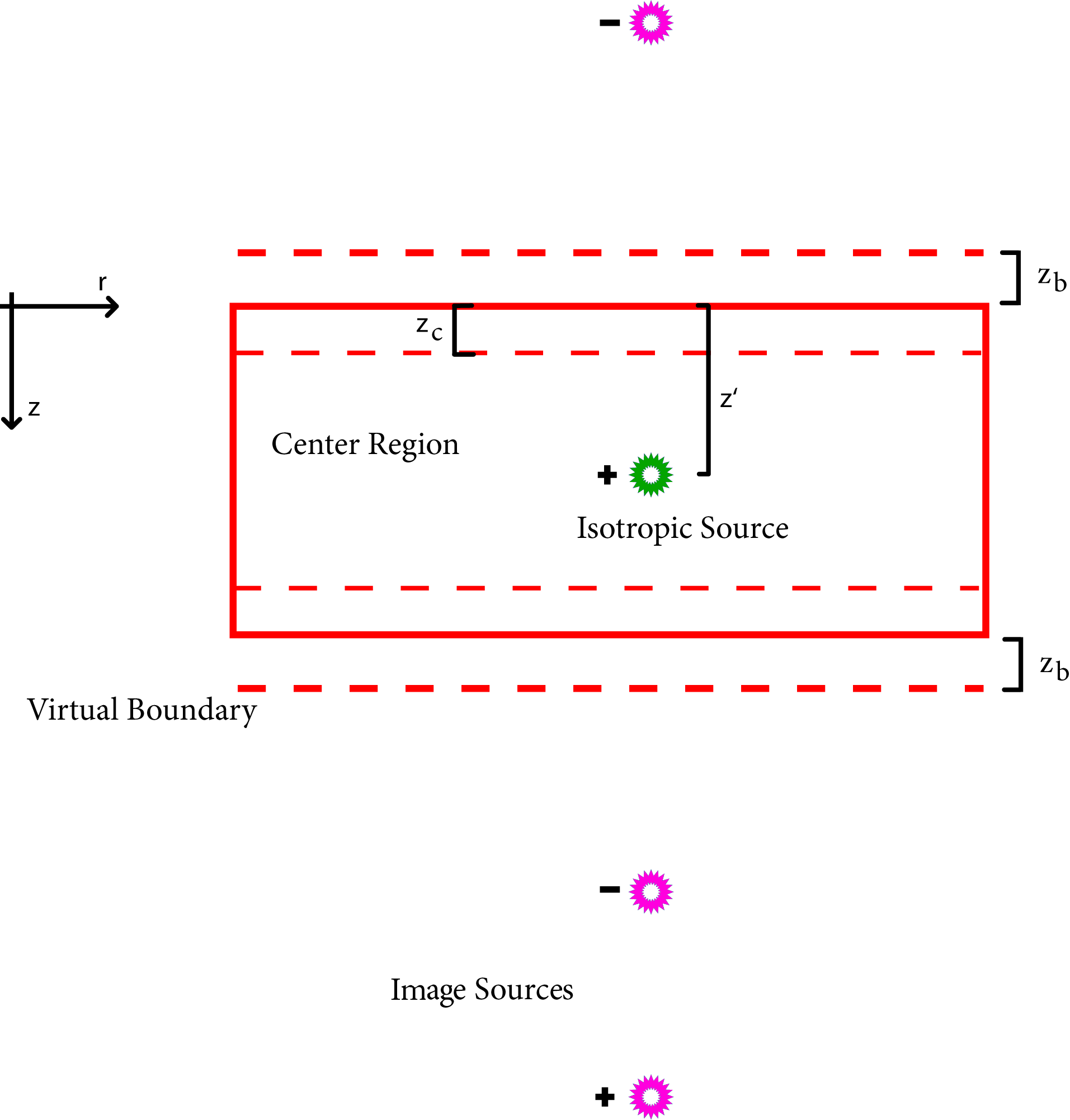 Slab geometry with isotropic point source, virtual boundaries, and image source pairs.